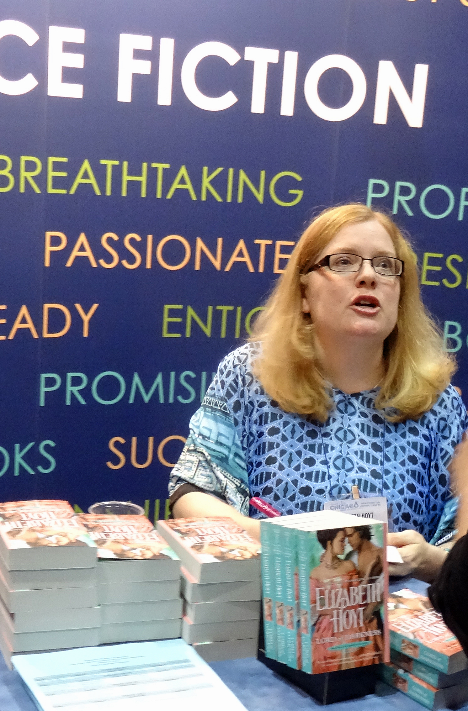 Elizabeth Hoyt, an American historical romance writer. She also writes contemporary romance novels using the pseudonym Julia Harper.